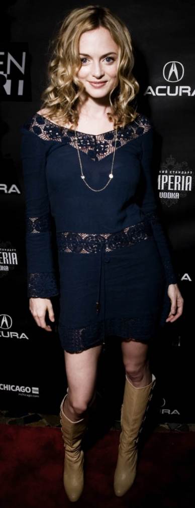 Heather Graham